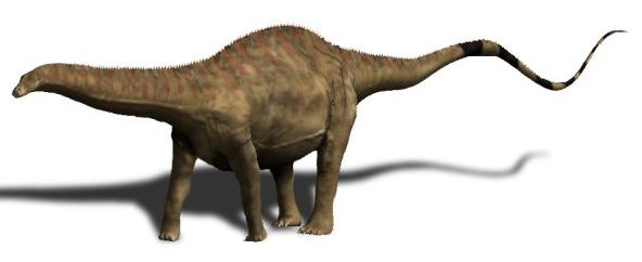 Rebbachisaurus garasbae, Early Cretaceous of North Africa. Digital.